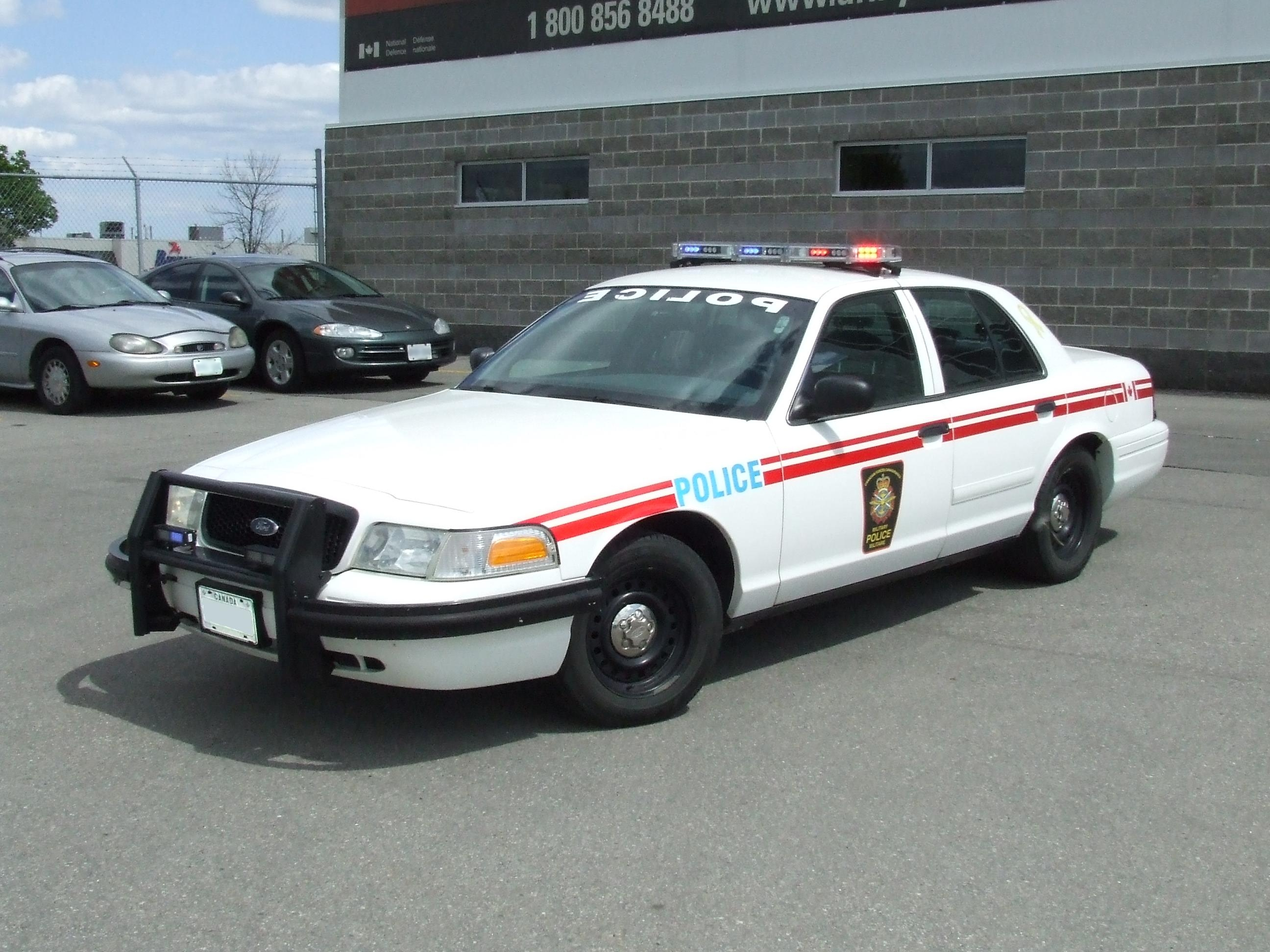 Canadian Armed Forces Military Police vehicle (Ford Crown Victoria Police Interceptor). This vehicle is non-standard in the sense that the guard around the front fender is not typical of most installations. Most police Crown Victoria's only include the crash bumper at the front of the car.